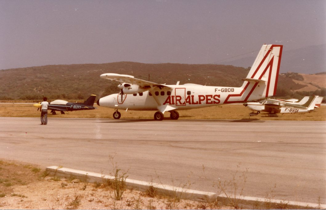 Arrival at Propriano Corse LKFO august 1979 De Havilland Canada DHC-6 Air Alpes